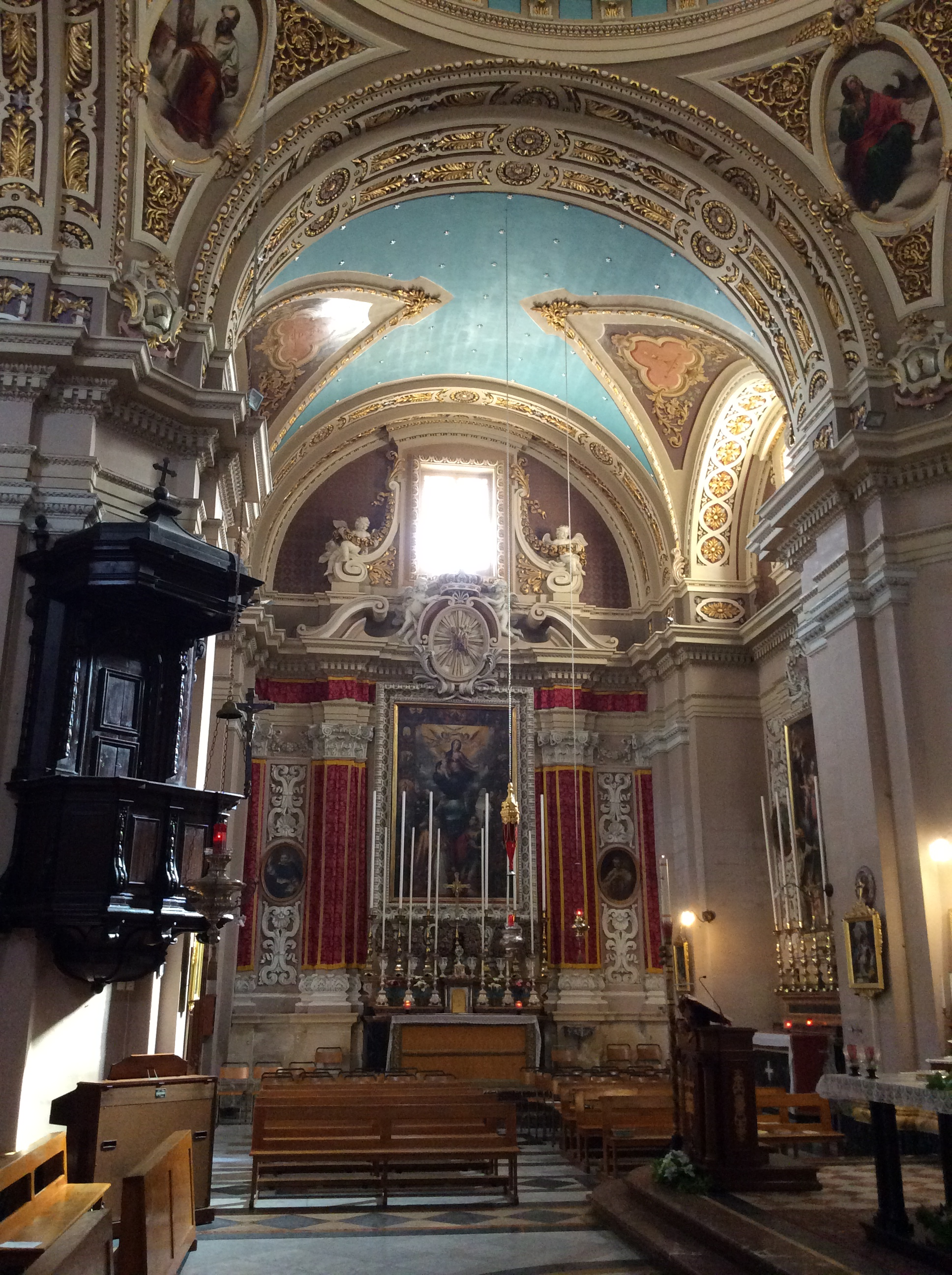 Gudja